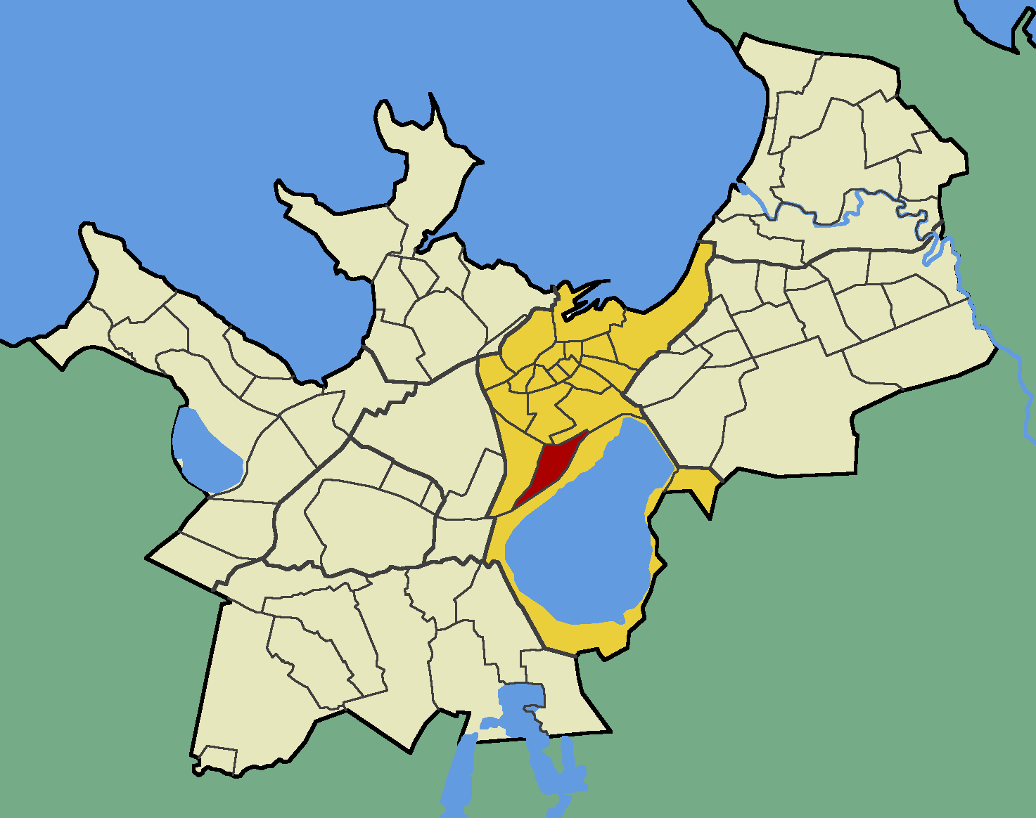 Map of Tallinn (Estonia) with borders of the quarters, Kesklinn district and Luite quarter emphasised